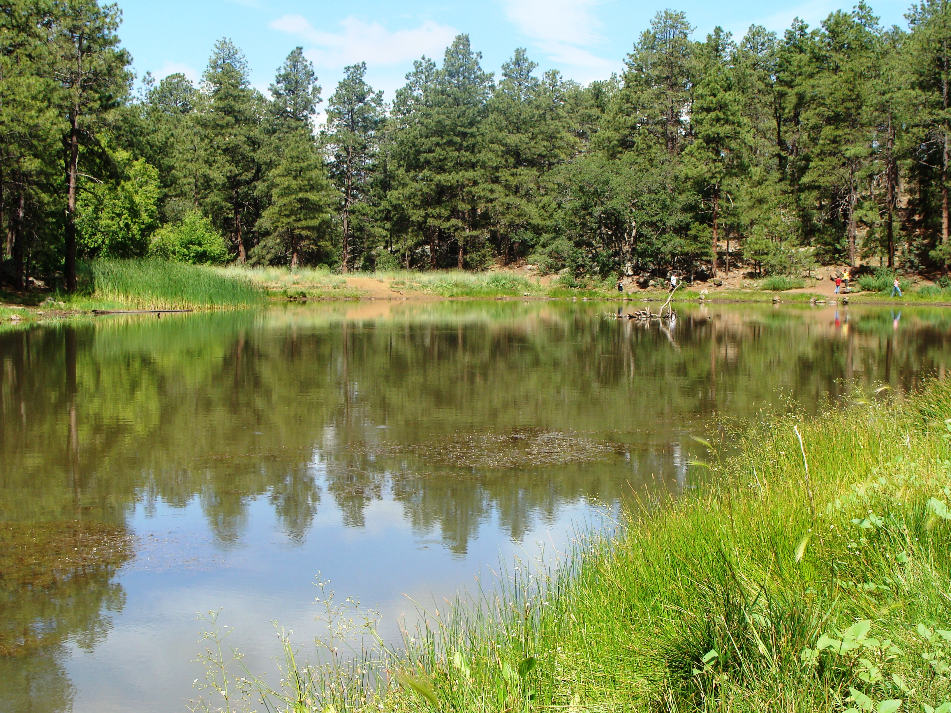 Atop Mingus Mountain, near the summit, there is a small lake. It can be accessed by a road off of route 89A. It is wooded by Prescott National Forest.